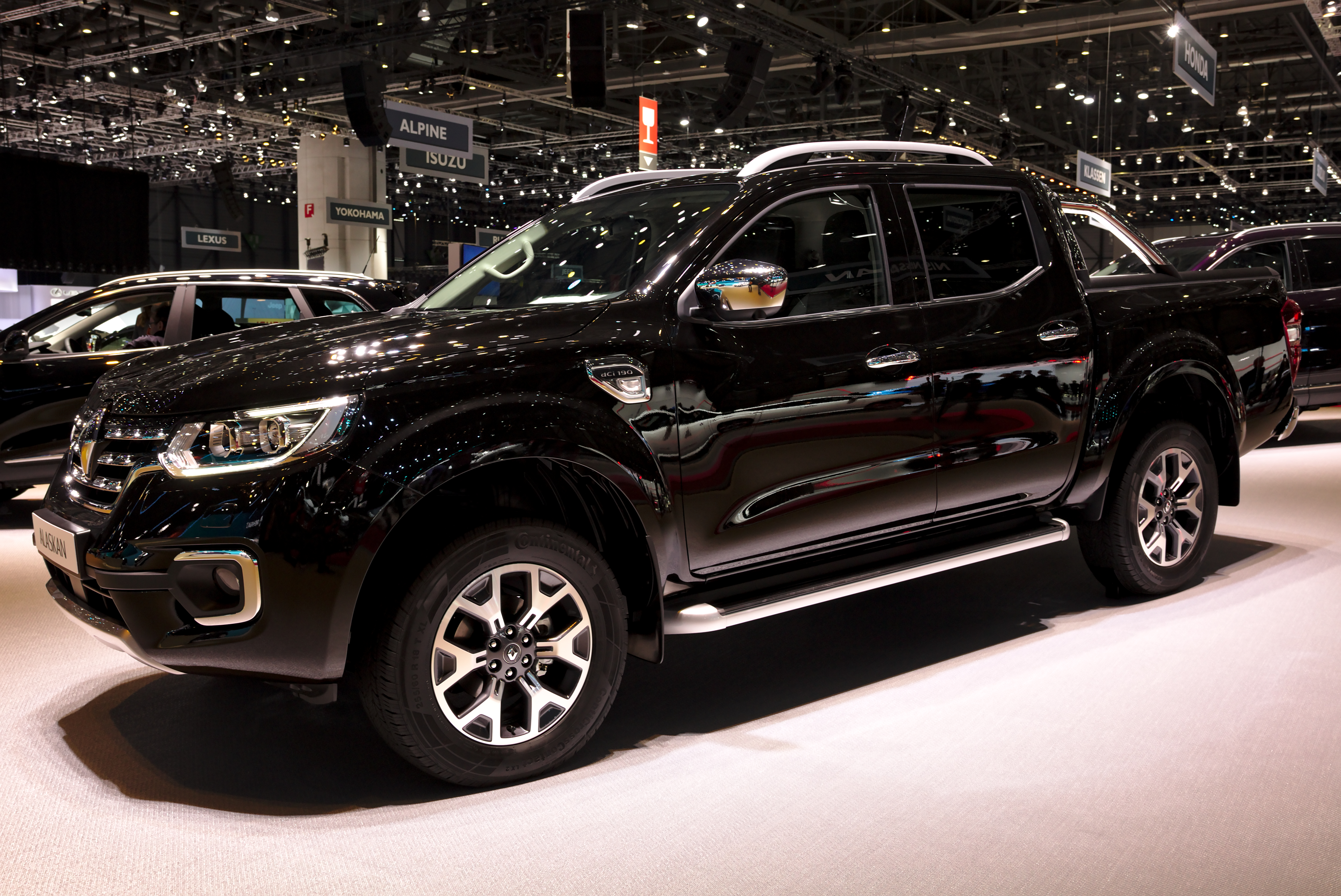 Renault Alaskan at Geneva Motorshow 2018